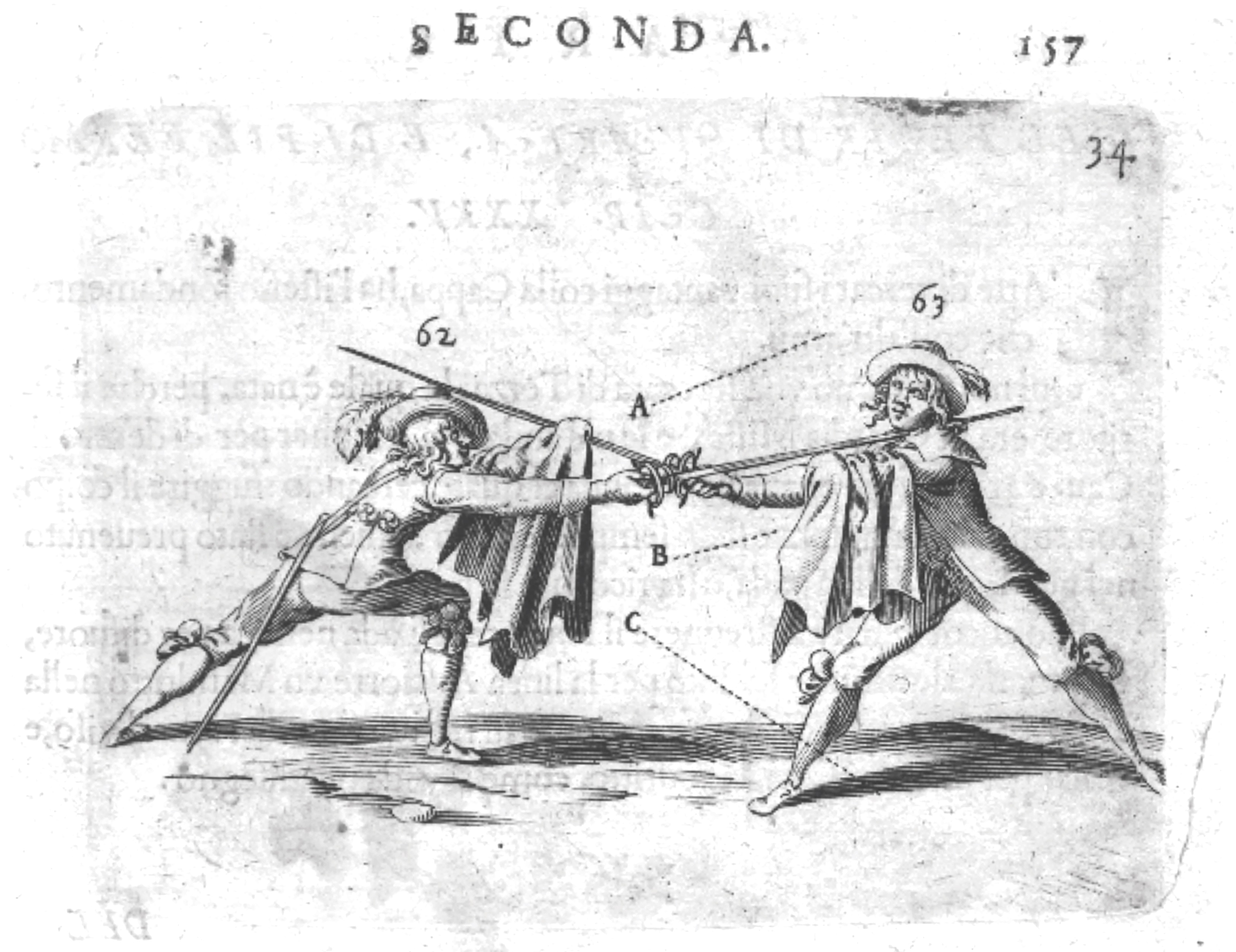 О нанесении удара с неподвижными ногами с мечом и капа